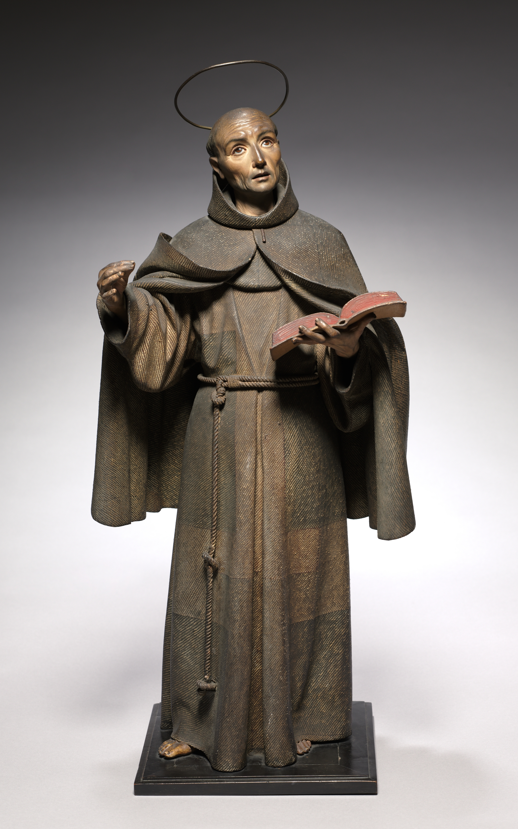 Painted wood sculpture from Spain in the 1600s involved a team of artisans working under a lead sculptor. The sculptor first carved numerous pieces of wood in complex forms. So the paint would stick properly, these fragments were delicately covered in gesso (a combination of white chalk and glue made from animal collagen), preserving the subtle woodcarving underneath. The rough surface of the saint's face-reflecting his age and hardships-came from texturing the gesso with a brush. The glass eyes, probably imported from Venice, were inserted from behind the face before the wood pieces were attached. Finally, the eyelashes were added for a further touch of realism. A painter created the appearance of coarse sackcloth in a distinctive style, with yellow strokes rising off the surface. Smoother brushstrokes form the flesh tones, even revealing the saint's five-o'clock shadow. Unlike other kinds of painting, sculpture from southern Spain at this time was usually not covered in varnish; sculptors prized the unvarnished paint for its realistic effect, although it makes the surface exceptionally delicate and susceptible to dust and dirt, which more easily sticks to the surface. The museum plans to clean the sculpture in the near future.